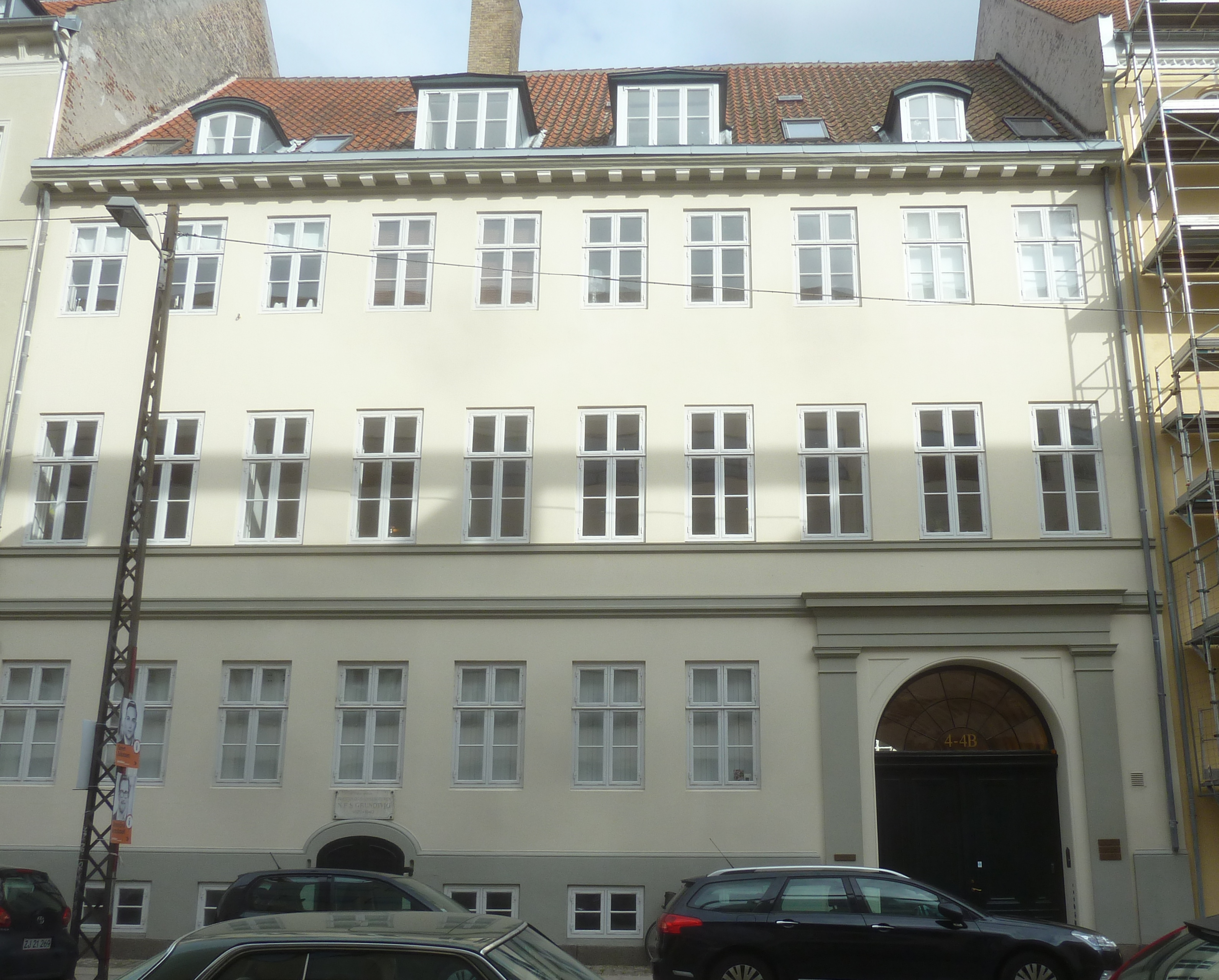 Strandgade 4 in Christianshavn, Copenhagen, Denmark